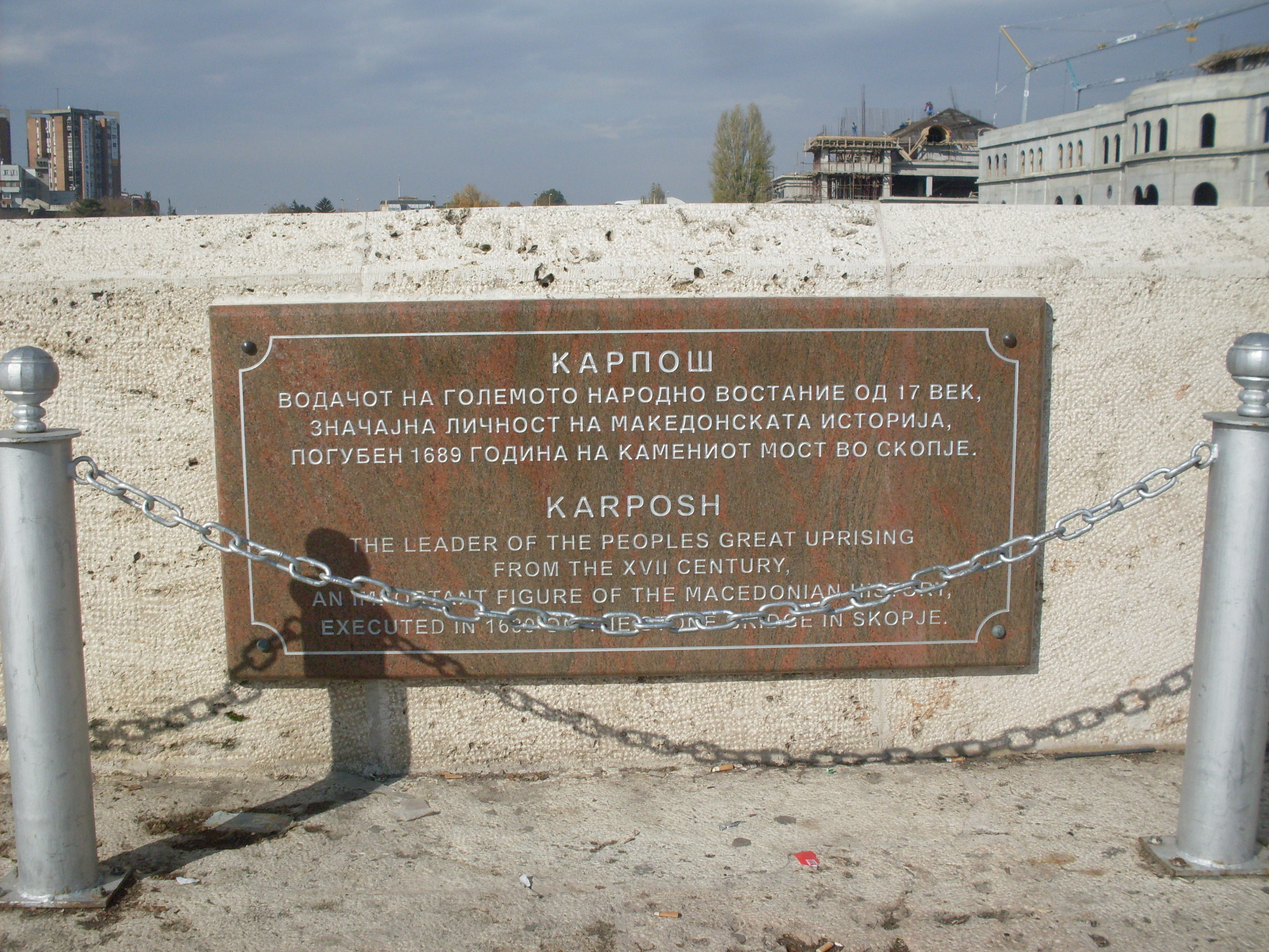 Memory table in Skopje where Karposh was executed